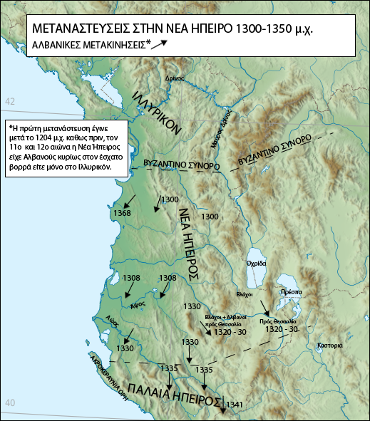 Albanian (& Vlach) migrations in 1300-1350 AD at Epirus Nova Own work data from Migrations and invasions in Greece and adjacent areas by Nicholas Geoffrey Lemprière Hammond,1976,ISBN-0815550472,MAP 11 Collected Studies: Studies in Greek literature and history, excluding Epirus and Macedonia Tome 1 of Collected Studies, Nicholas Geoffrey Lemprière Hammond,1993 American journal of philology, Tomes 98-99, by Basil Lanneau Gildersleeve,Tenney Frank,Harold Fredrik Cherniss,JSTOR (Organization),Project Muse,1977 Greece old and new by Tom Winnifrith,Penelope Murray,1983,ISBN-0333278364 Blank map from Image